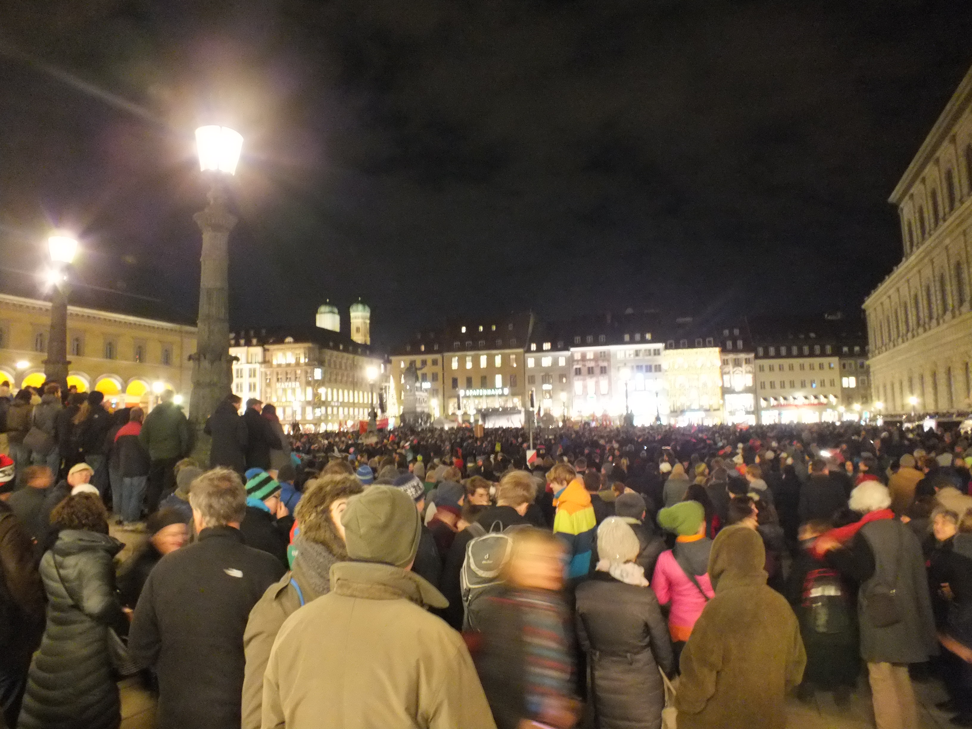 Munich, Max-Joseph-Platz: on December 22 , 2014 more than 12,000 people stand up against racism.